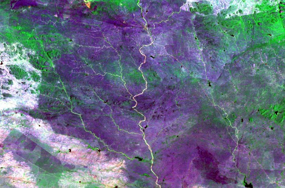 False colour composite showing of the middle Mzingwane River, Zimbabwe. Data source: scene path170 row075 dated 3 December 2000 supplied by Global land Cover Facility Ref.: Love, D., Love, F., Owen, R.J.S., Uhlenbrook, S. and van der Zaag, P. 2008. Impact of the Zhovhe Dam on the lower Mzingwane River channel. In: Humphreys, E., Bayot, R.S., van Brakel, M., Gichuki, F., Svendsen, M., Wester, P., Huber-Lee, A., Cook, S., Douthwaite, B., Hoanh, C.T., Johnson, N., Nguyen-Khoa, S., Vidal, A. and MacIntyre, I. (eds.). Fighting Poverty Through Sustainable Water Use: Proceedings of the CGIAR Challenge Program on Water and Food 2nd International Forum on Water and Food, Addis Ababa, Ethiopia, November 10 – 14 2008, IV. The CGIAR Challenge Program on Water and Food, Colombo, pp46-51.